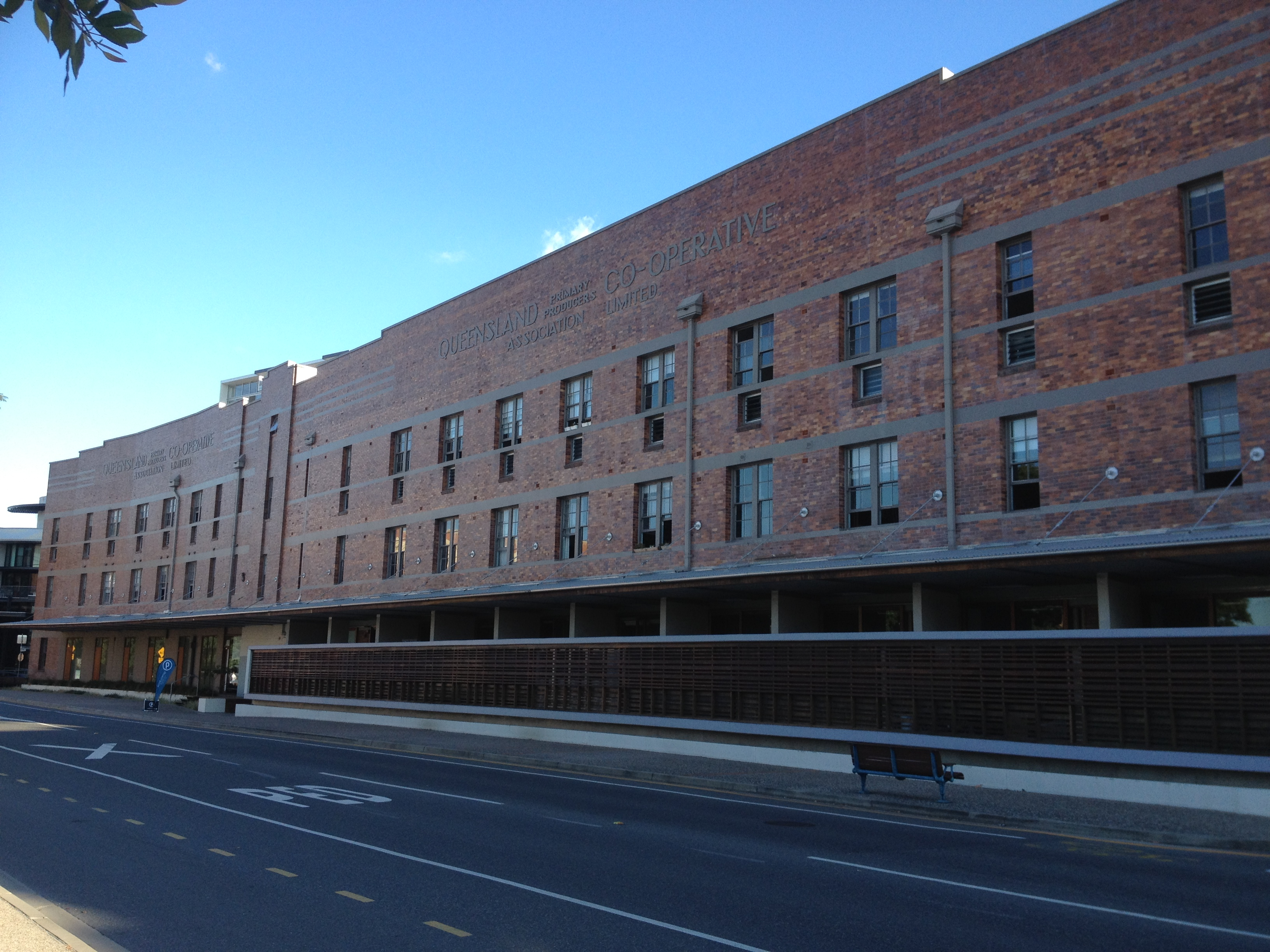 Queensland Primary Producers Co-Operative No 4 Woolstore, 8 - 16 Skyring Tce, Teneriffe, Queensland. It was mostly built during the 1930s in the Interwar Art Deco style.